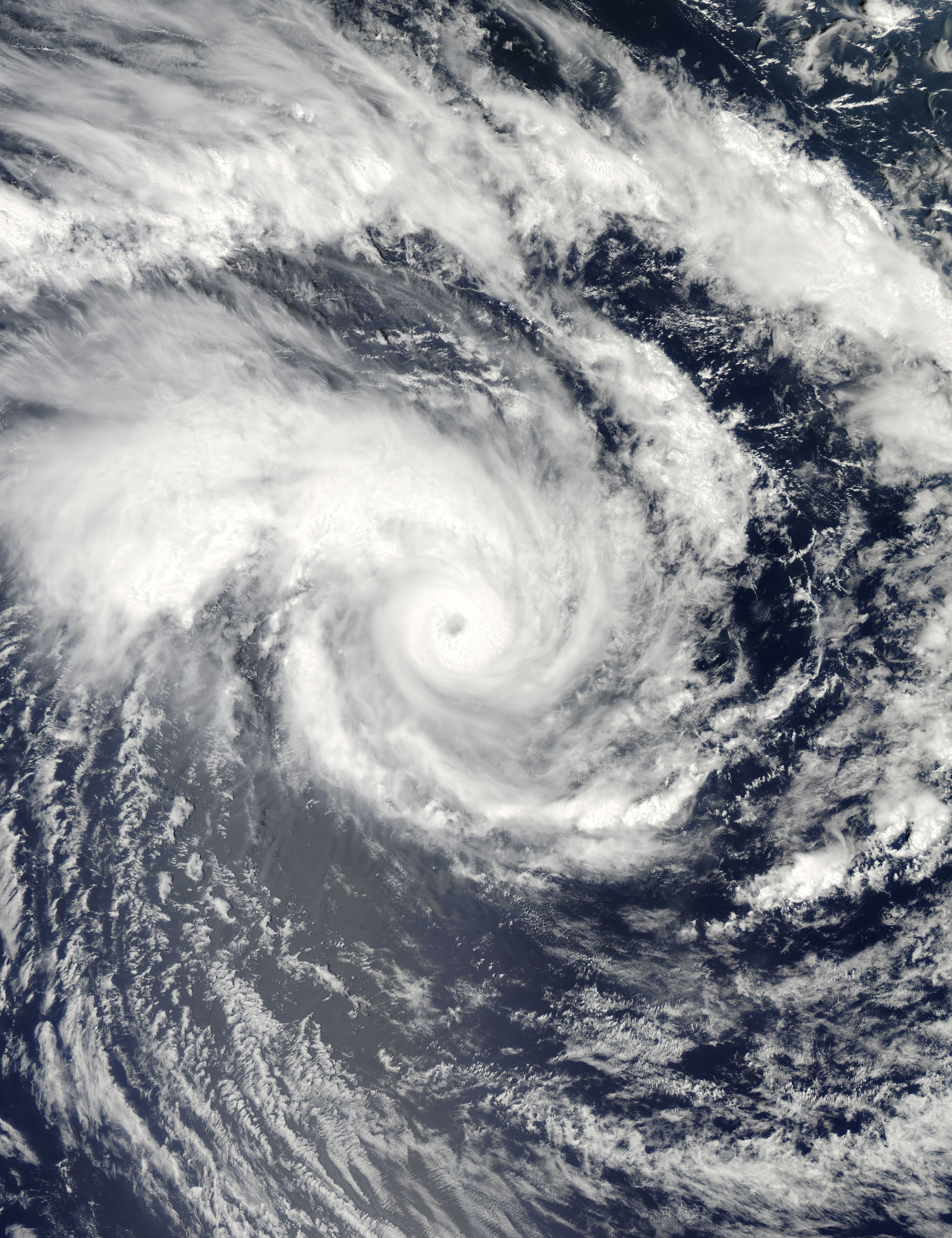 Tropical cyclone Edzani prior to peak intensity.